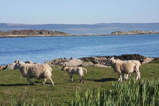 View towards Gigalum Island, off the south-east coast of Gigha, in the Inner Hebrides